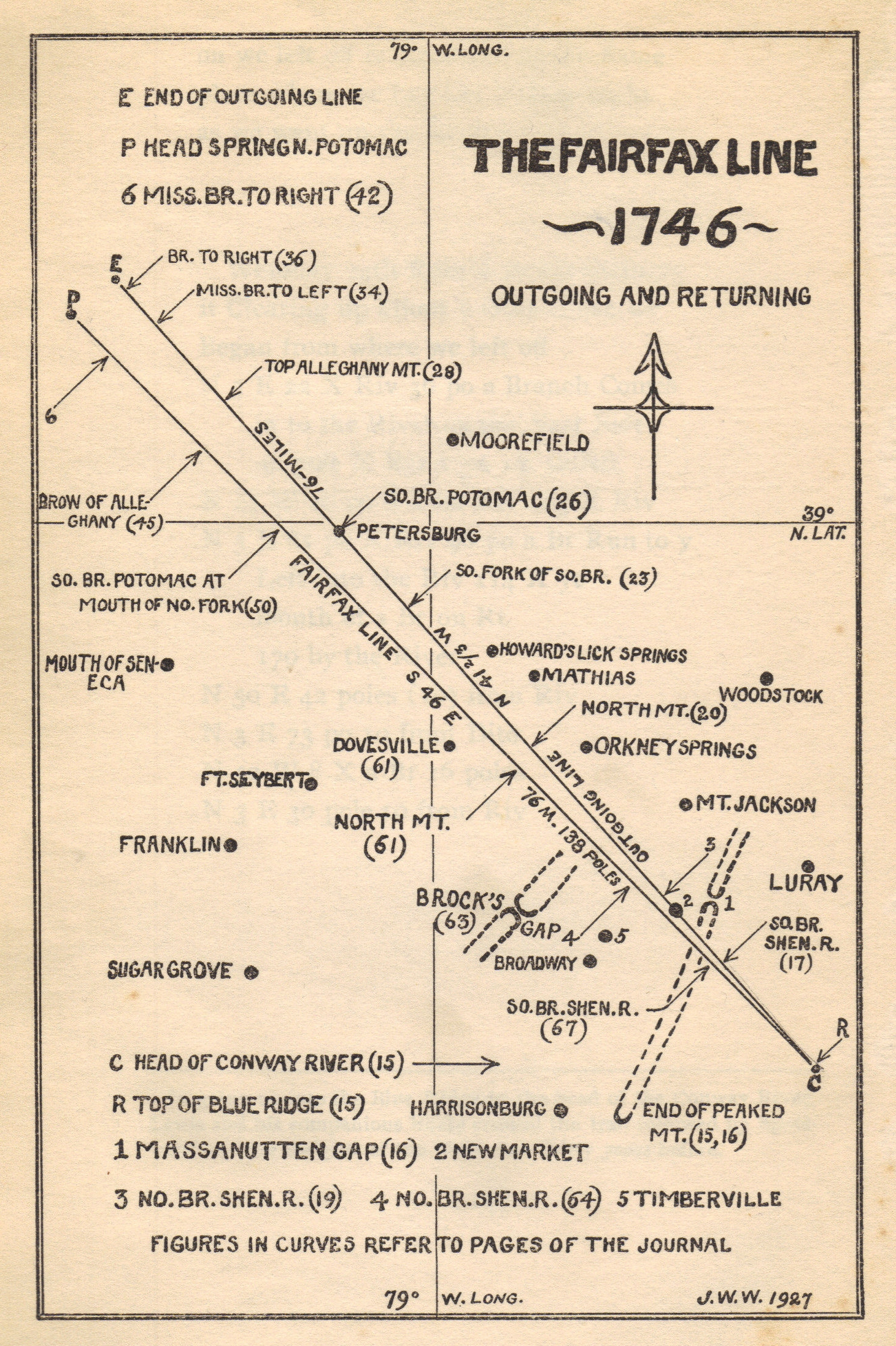 Map of the Fairfax Line of Virginia and West Virginia, surveyed 1746.